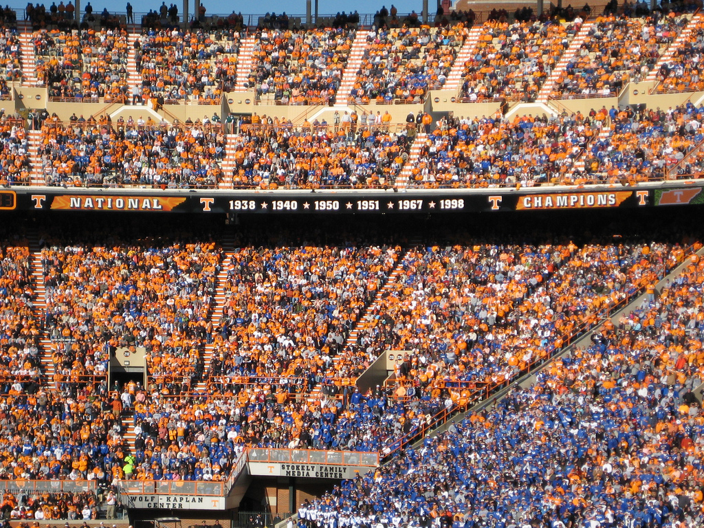 Tennessee - Kentucky Game, 2010